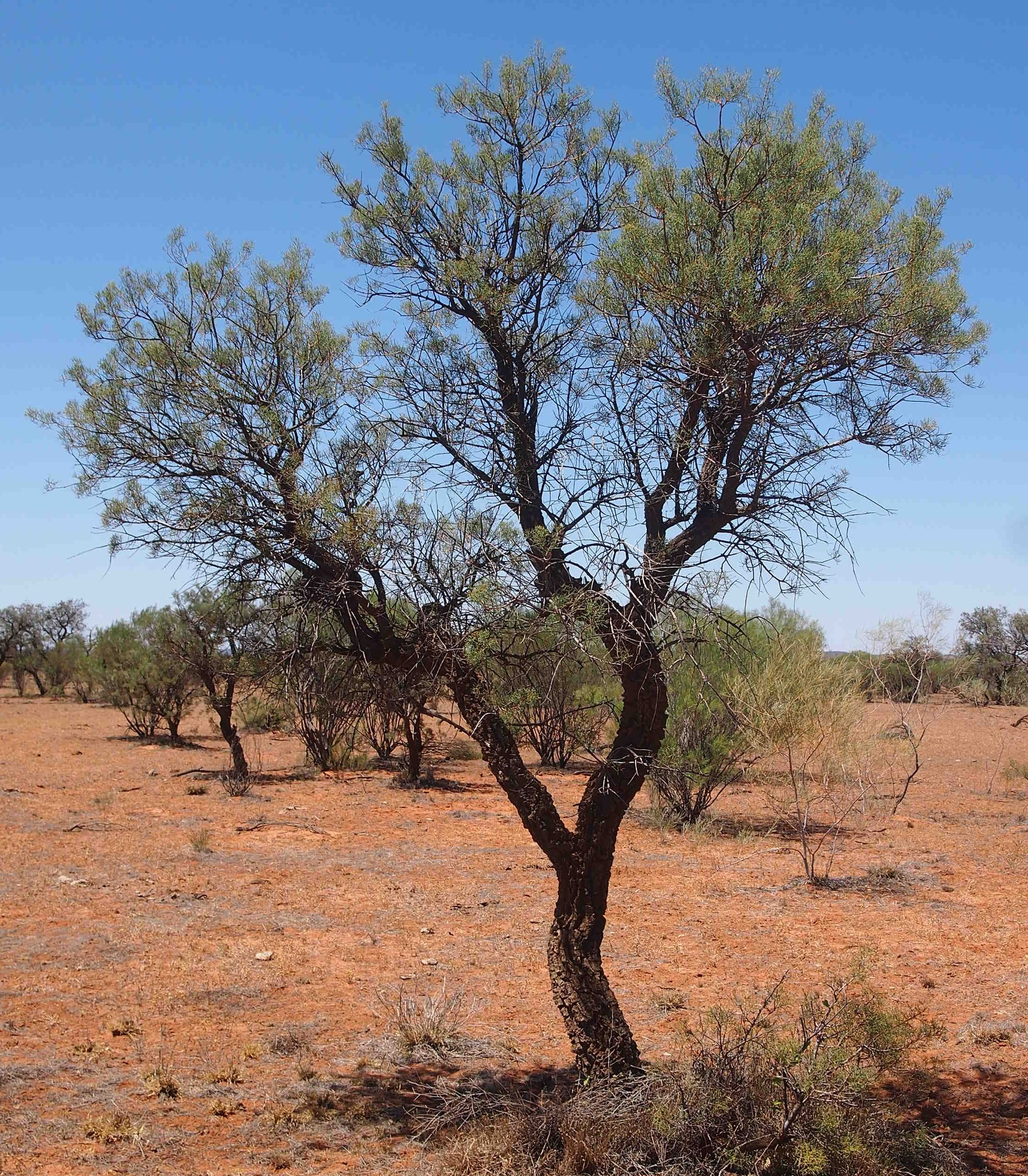 Hakea divaricata habit